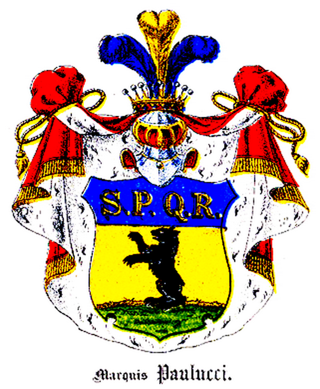 Coat of Arms of Marquis Paulucci family